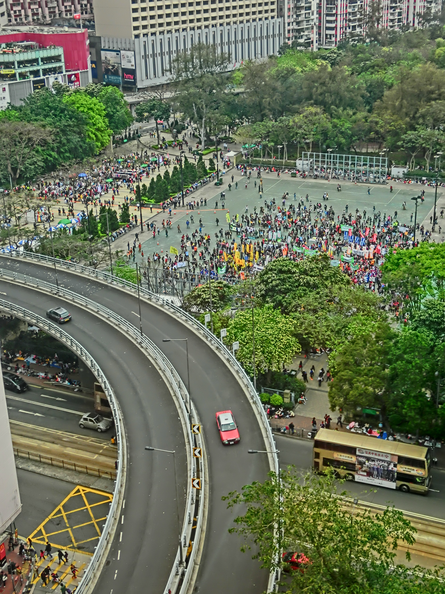 2013年葵青貨櫃碼頭工潮, 2013 HIT Dock workers' HKCTU Movement, Hong Kong